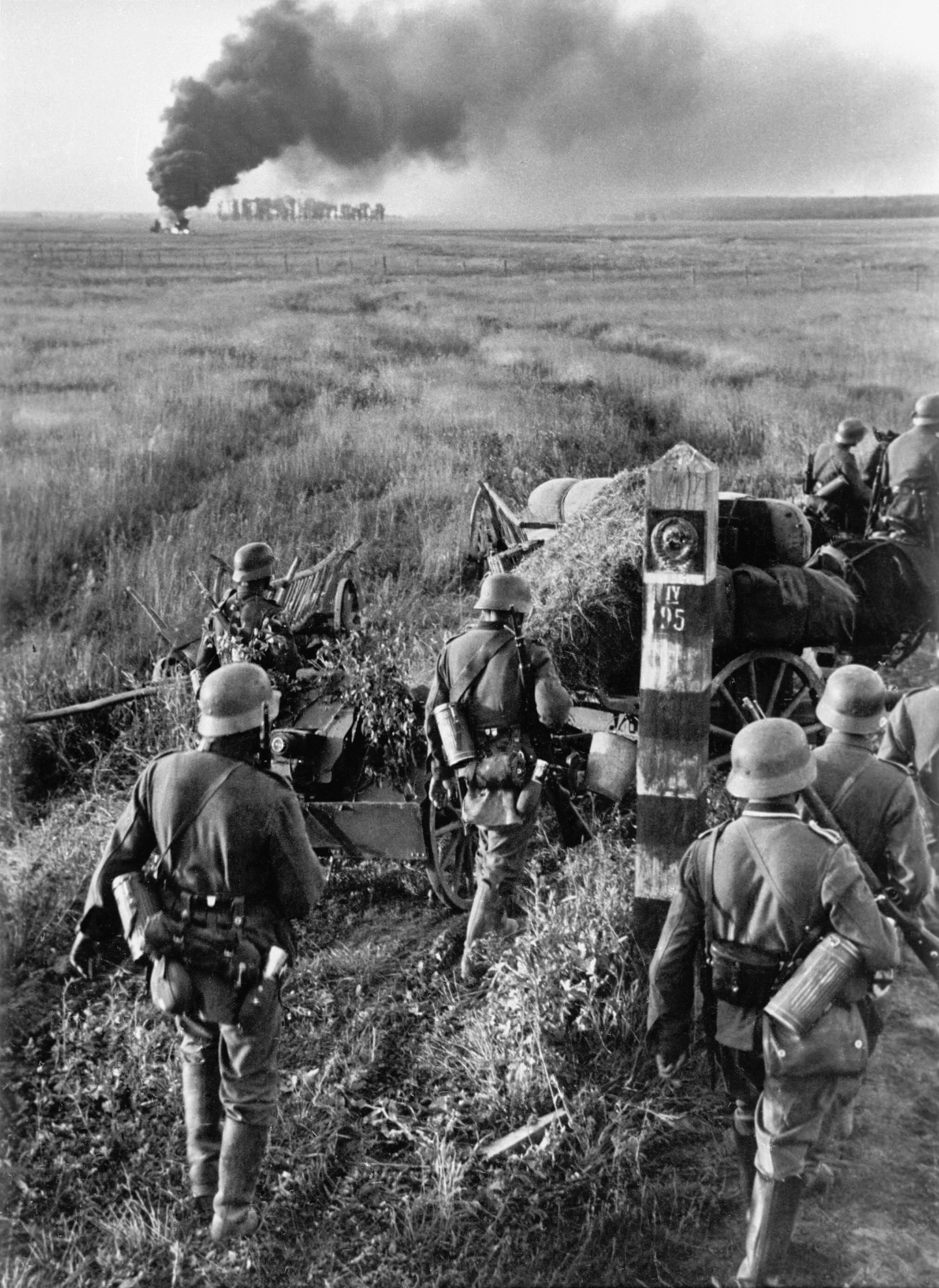 German troops with a 7.5 cm leichtes Infanteriegeschütz 18 cannon crossing the Soviet border during Operation Barbarossa.